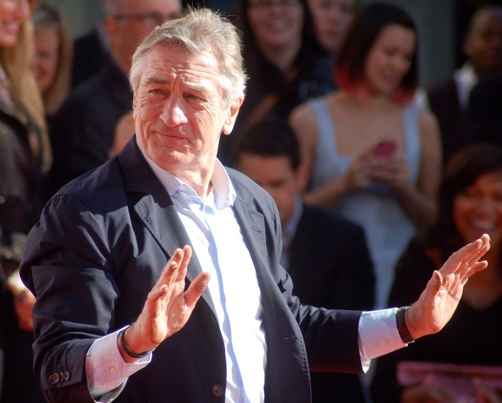 Robert De Niro at a ceremony to have his hands and shoe prints placed in cement in front of TCL Chinese Theatre.